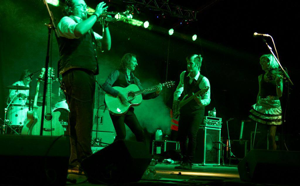 The folk rock band Roving Crows performing at Lakefest festival on the 10th August 2013 as main support for the Levellers